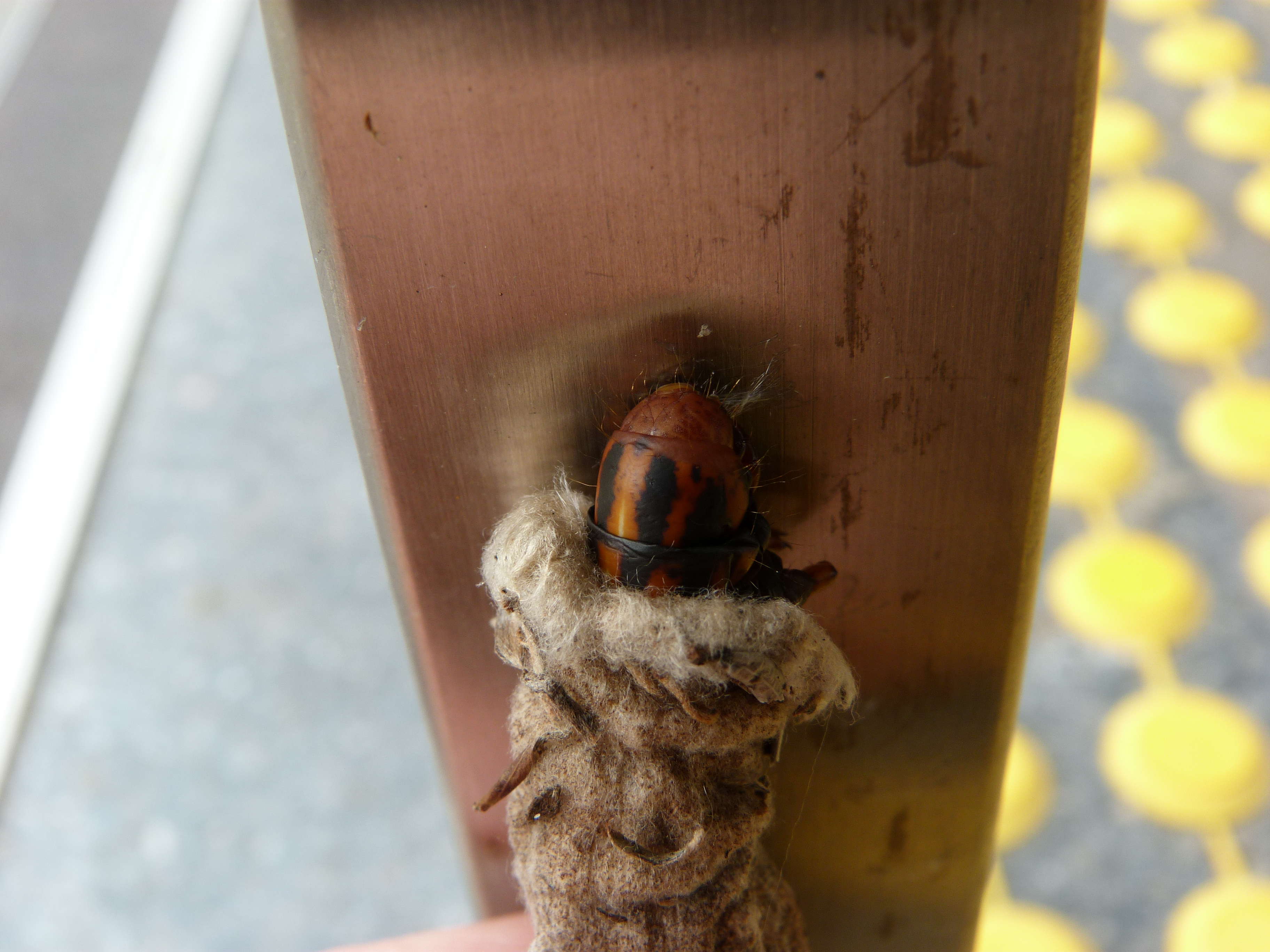 Metura elongatus (Saunders, 1847), larva in case, Black Mountain, Canberra, ACT, 15 March 2011 Spinning a silk step to hold on or climb. See this photo for another view.